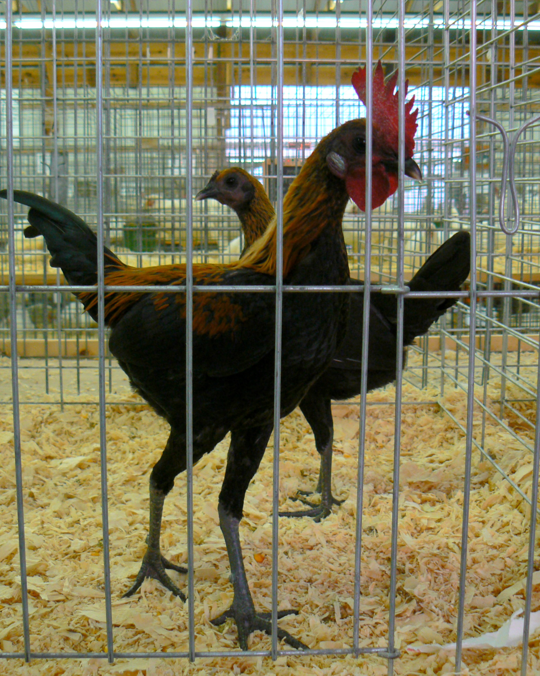 A pair of Modern Game chickens (male in foreground) at a poultry show.